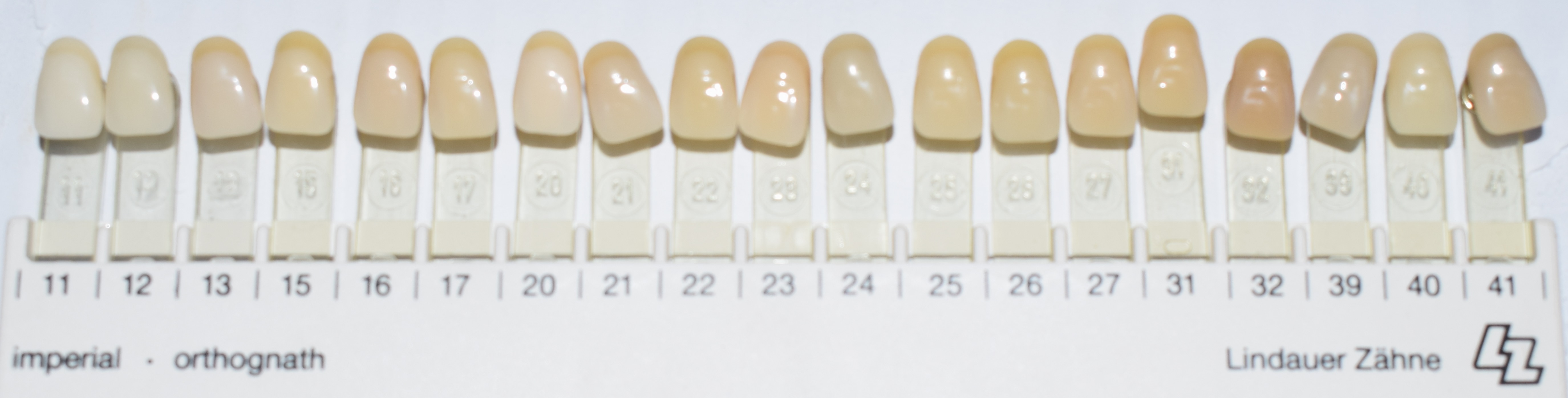 Shade guide used to describe teeth colour